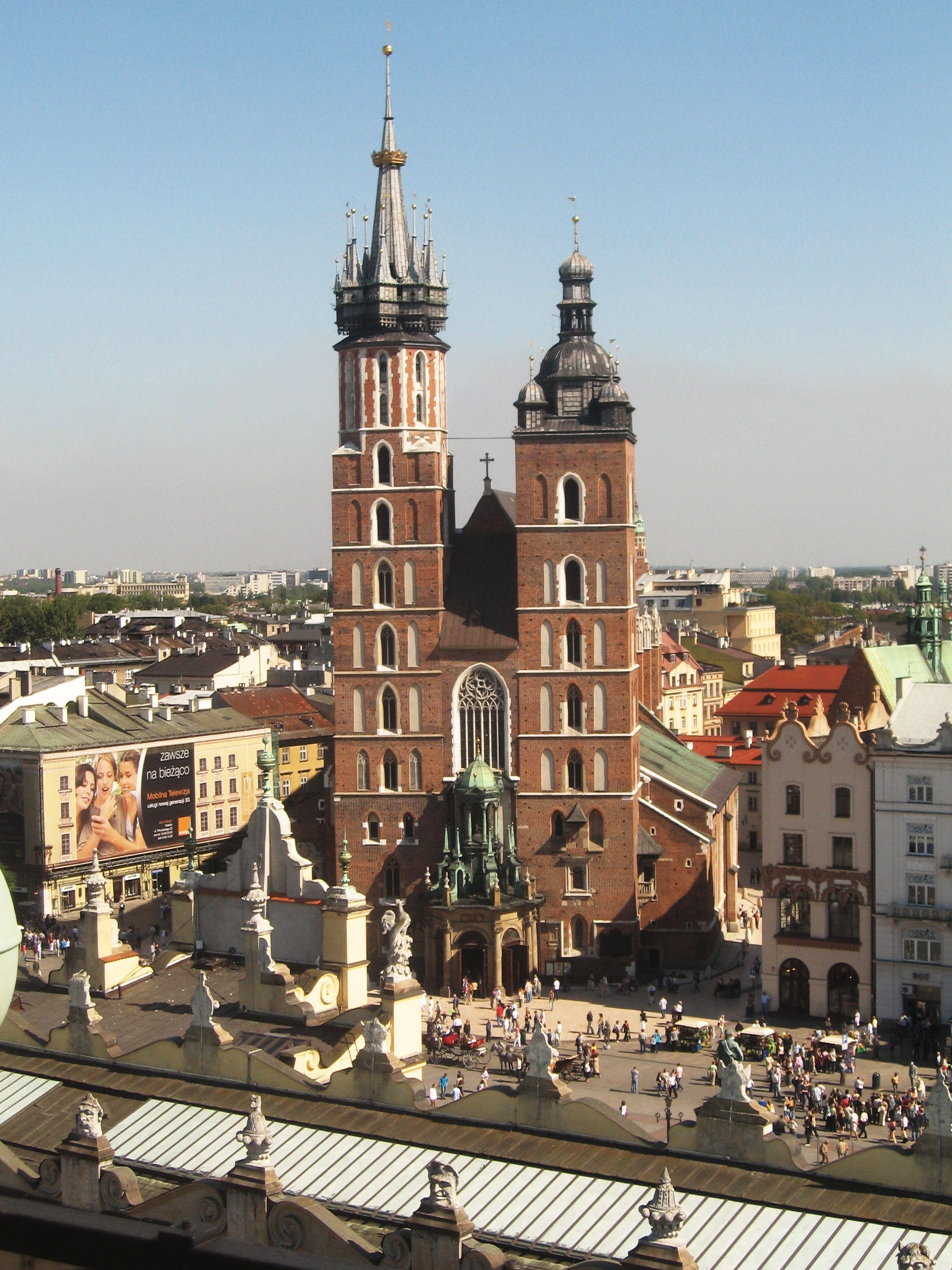 St. Mary's church at Krakow's Market Square from the Town Hall